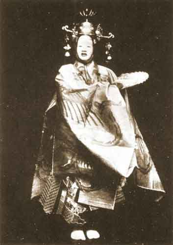 Appears in a 1921 book The No Plays of Japan.